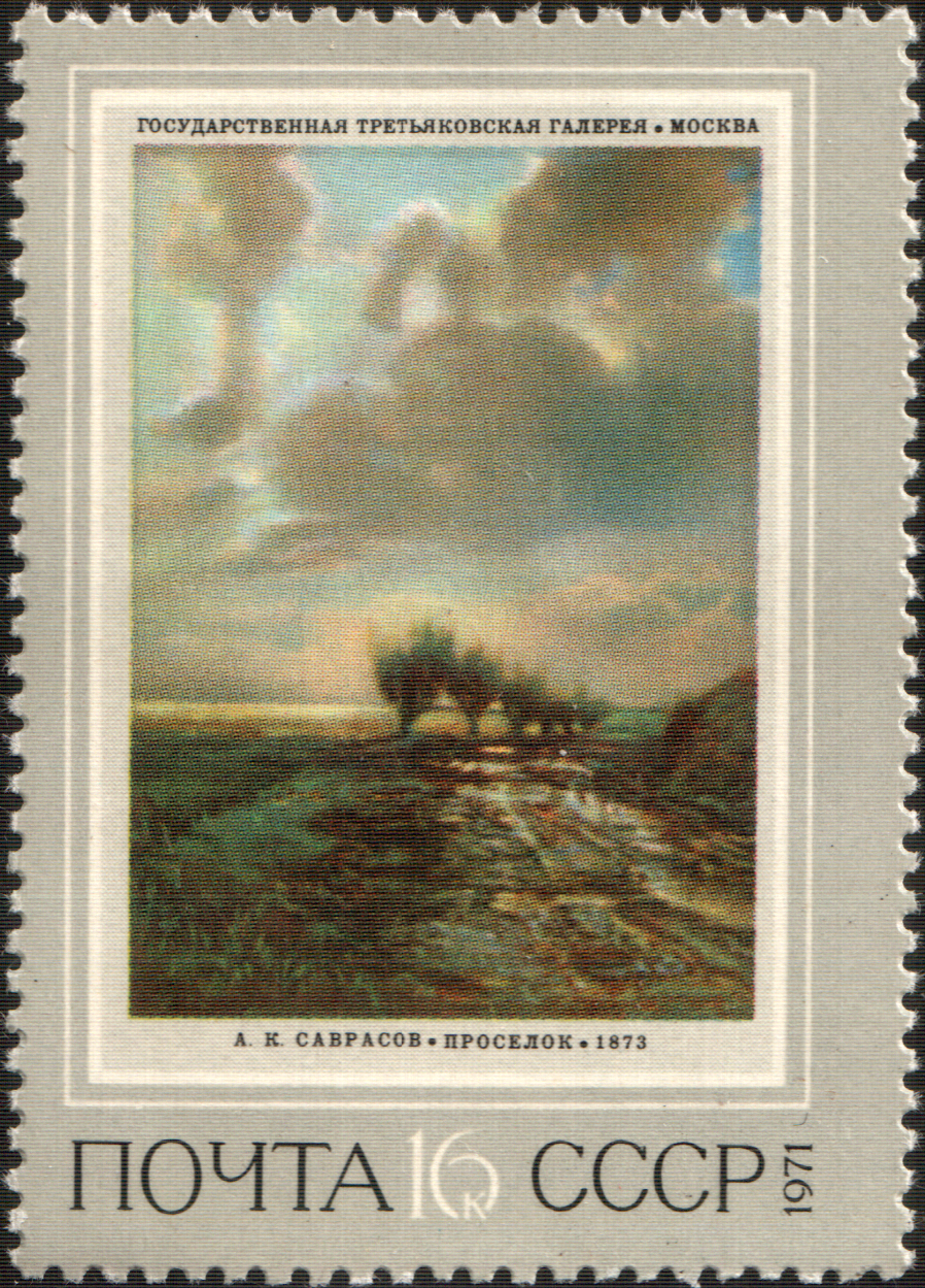 USSR stamp: "Country Road", by Alexei Savrasov. Series: Russian Painting from 18th- to Early 20th-century. Centenary of Peredvizhniki